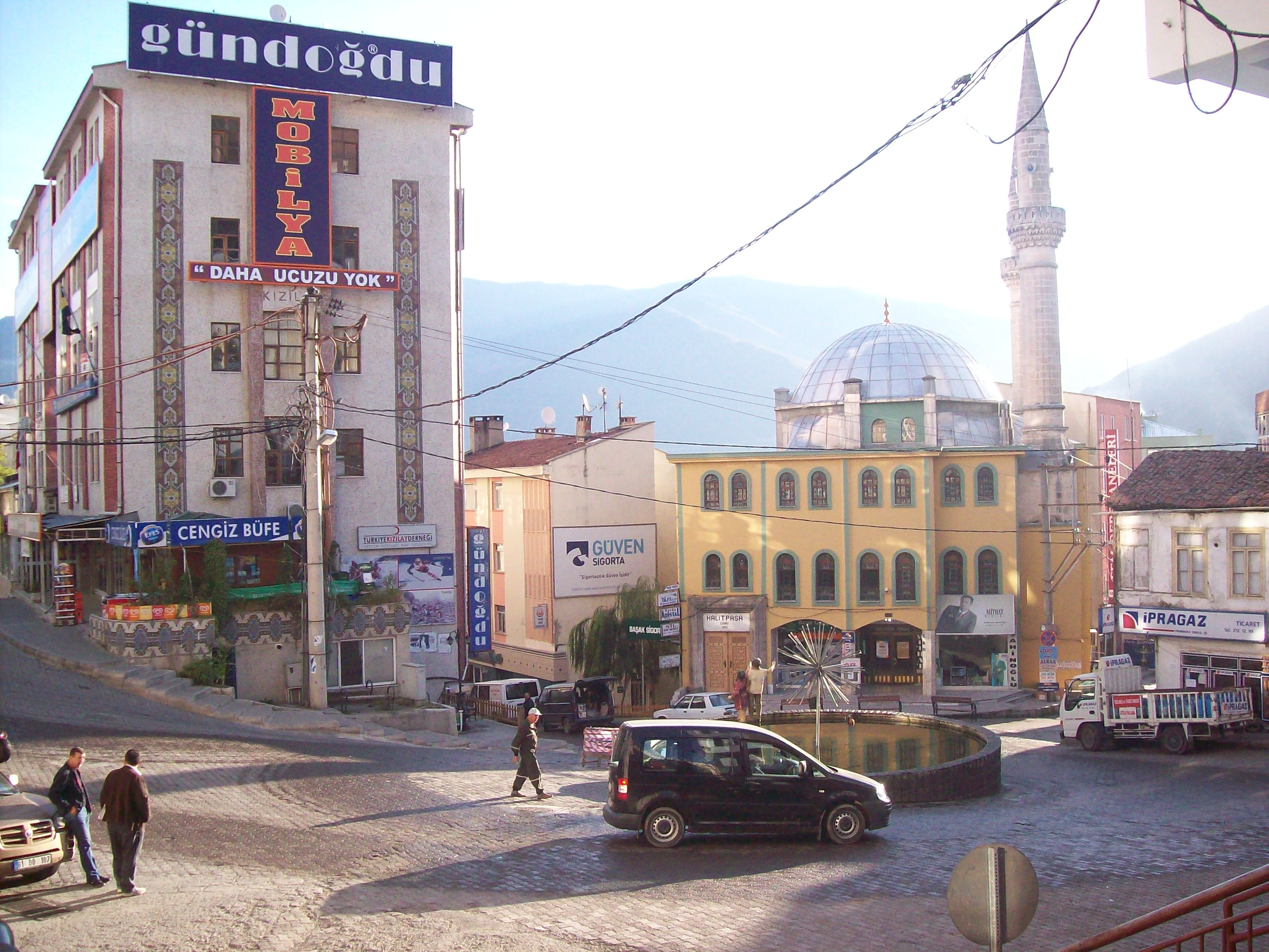 Artvin. City Center